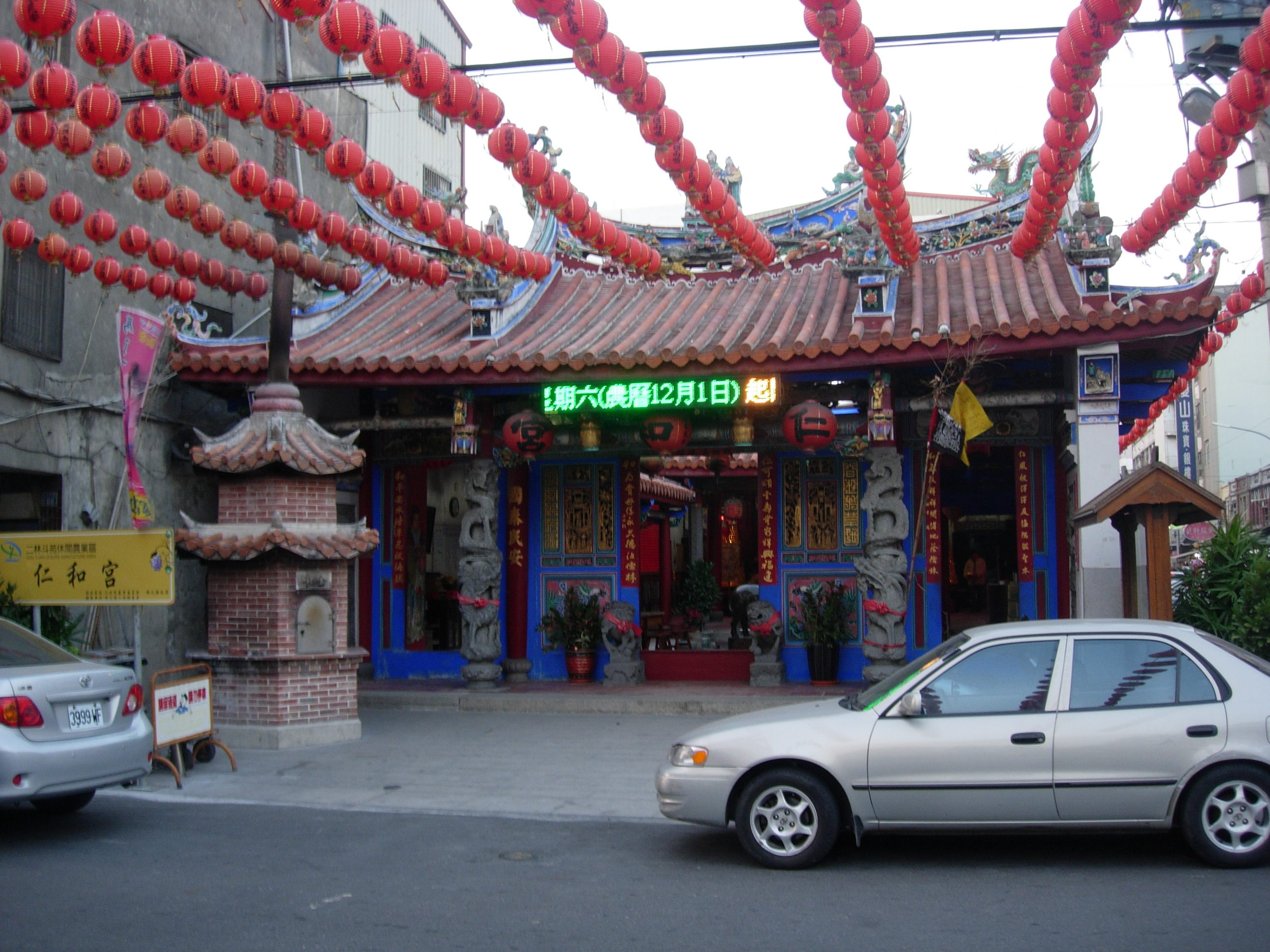 Erlin Renhe Temple